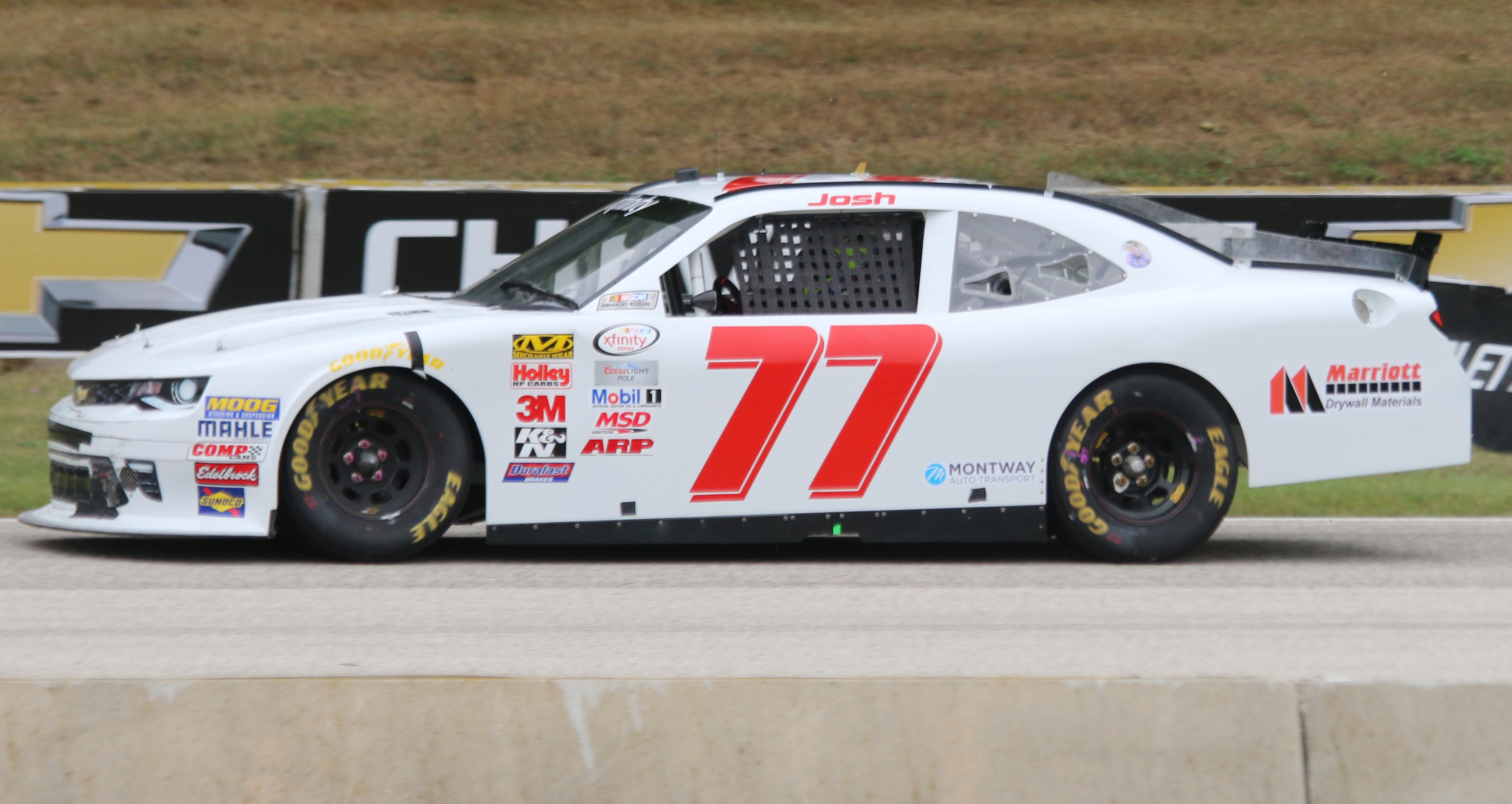 The Chevrolet Camaro of Josh Bilicki at the NASCAR Xfinity Series Road America 180.